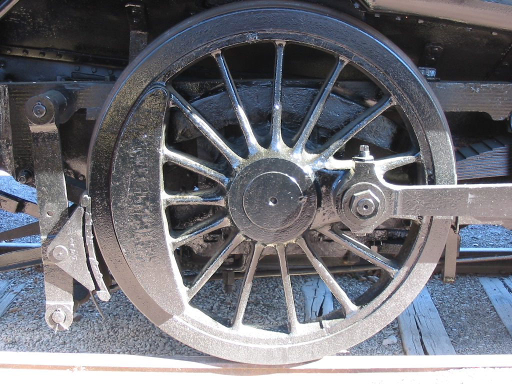 A driving wheel on a steam locomotive at the Mid-Continent Railway Museum in North Freedom, Wisconsin.